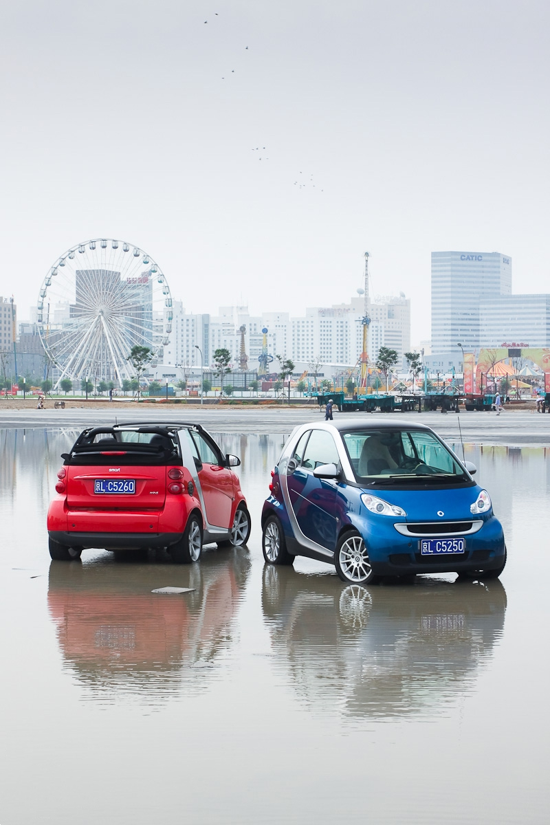 A smart fortwo mhd coupe and cabrio.